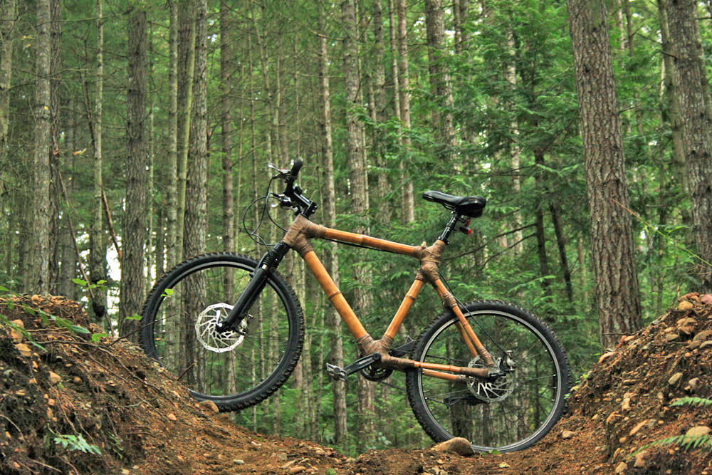 Bamboo bicycle using Bamboo Hemp Fiber and Epoxy made by Evolve Bicycles